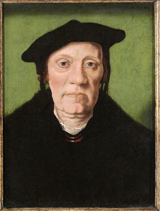 Portrait by Jan Van Scorel (1495-1562), possibly of Cornelis Aerentsz van der Dussen (1481-1551), Secretary of Delft from 1536. The original painting is currently with the Weiss Gallery, London.